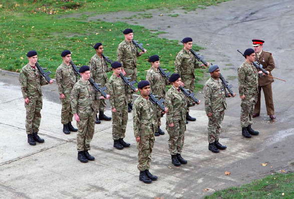 Sutton Grammar School CCF